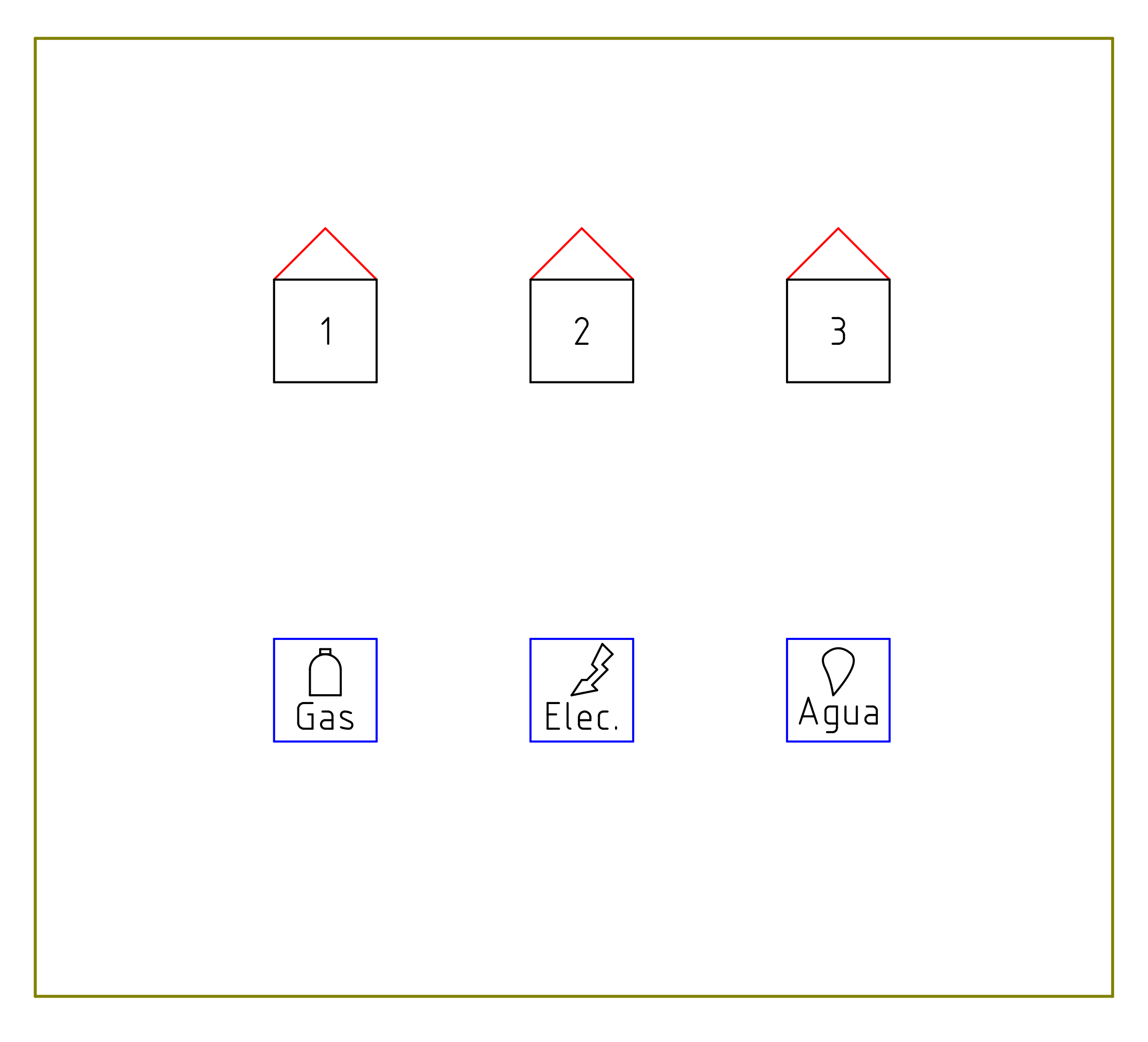 Three utilities problem.